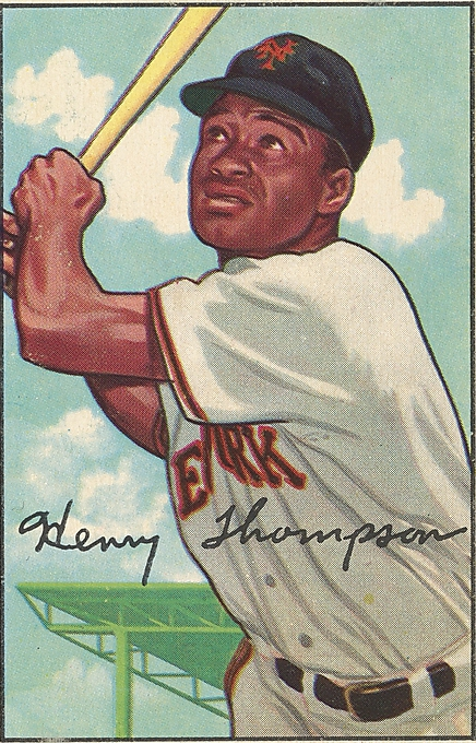 Cropped from original image. Henry Thompson, Outfield, New York Giants, from the series Picture Cards (no. 249) Issued by Bowman Gum Company Date: 1952 Medium: Commerical color lithograph Dimensions: sheet: 3 1/8 x 2 1/16 in. (8 x 5.3 cm) Classification: Prints Credit Line: The Jefferson R. Burdick Collection, Gift of Jefferson R. Burdick Accession Number: Burdick 327, R406-6.235